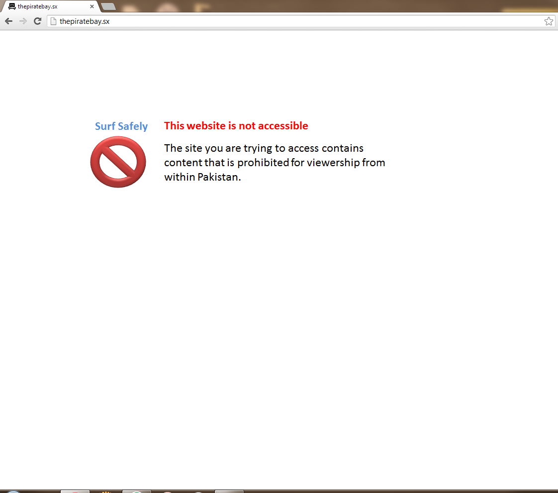 Users in Pakistan see the following message when accessing websites that are banned, like, Youtube and Piratebay. Internet censorship has been on a rise in Pakistan since the emergence of the film, Innocence of Muslims on Youtube.